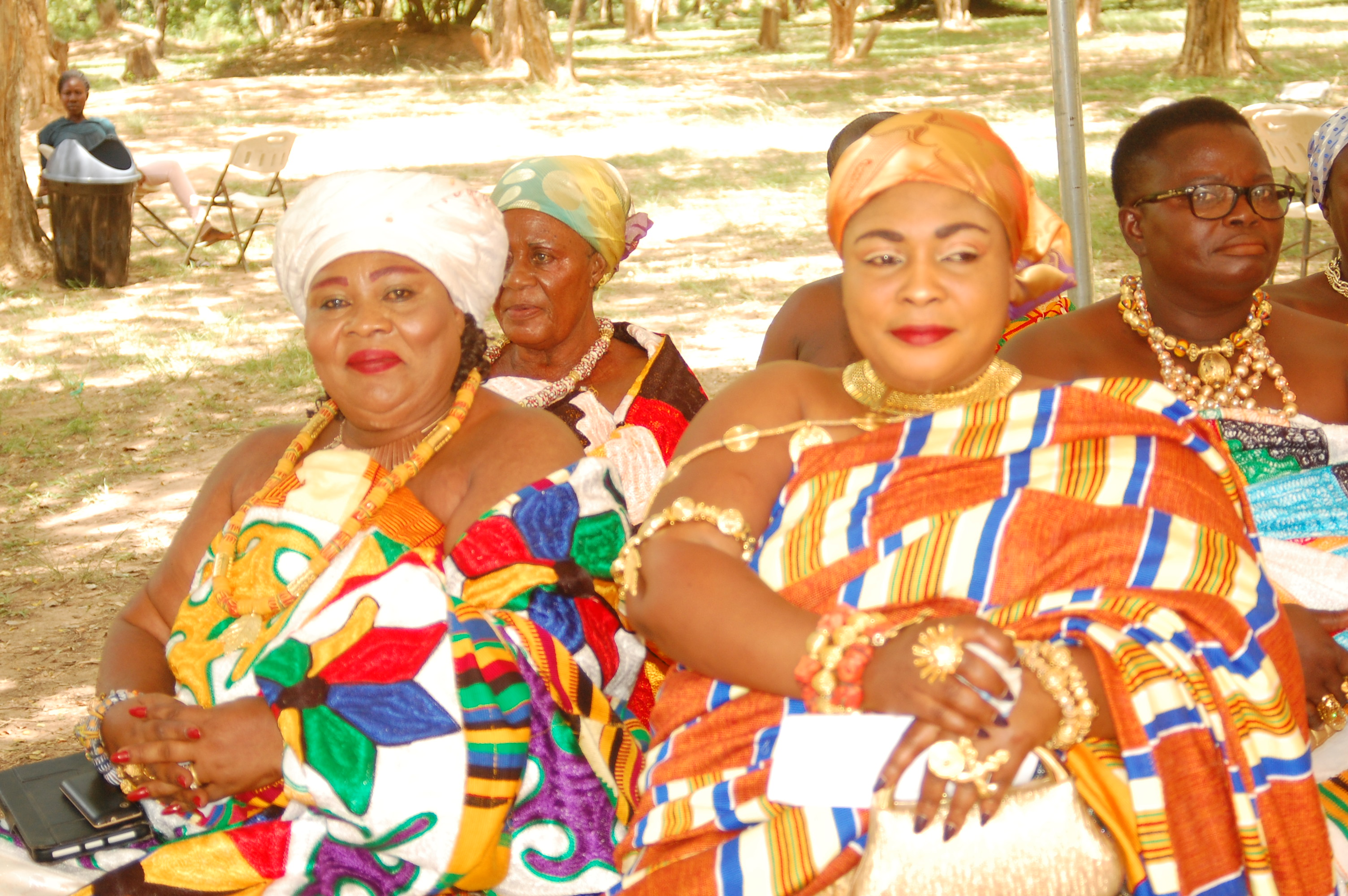 African queen mothers from Akan This is an image with the theme "Play" from: Ghana